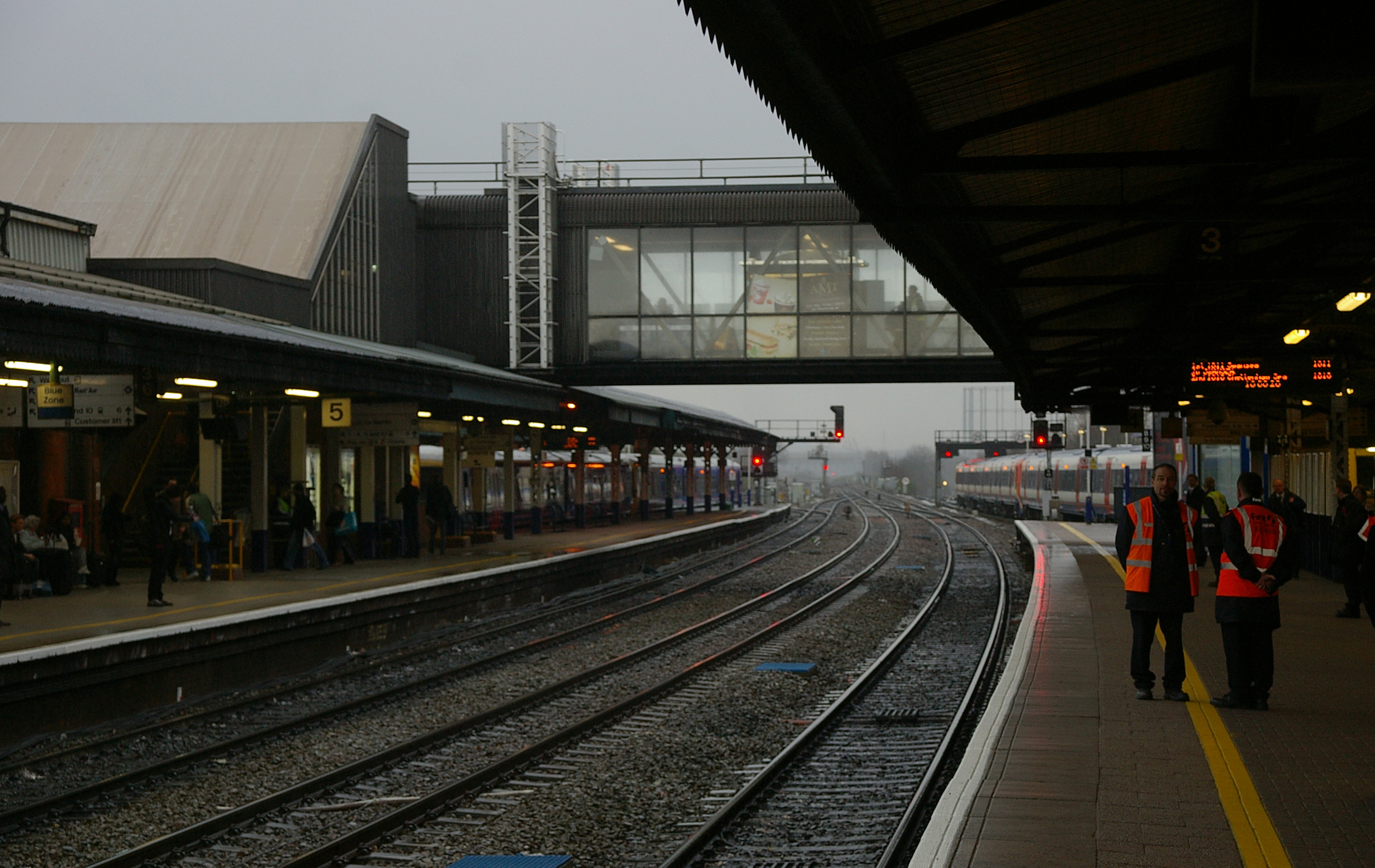 Looking east from the westbound platform at Reading. To the right, South West Trains units 458006 and 458013 can be seen.